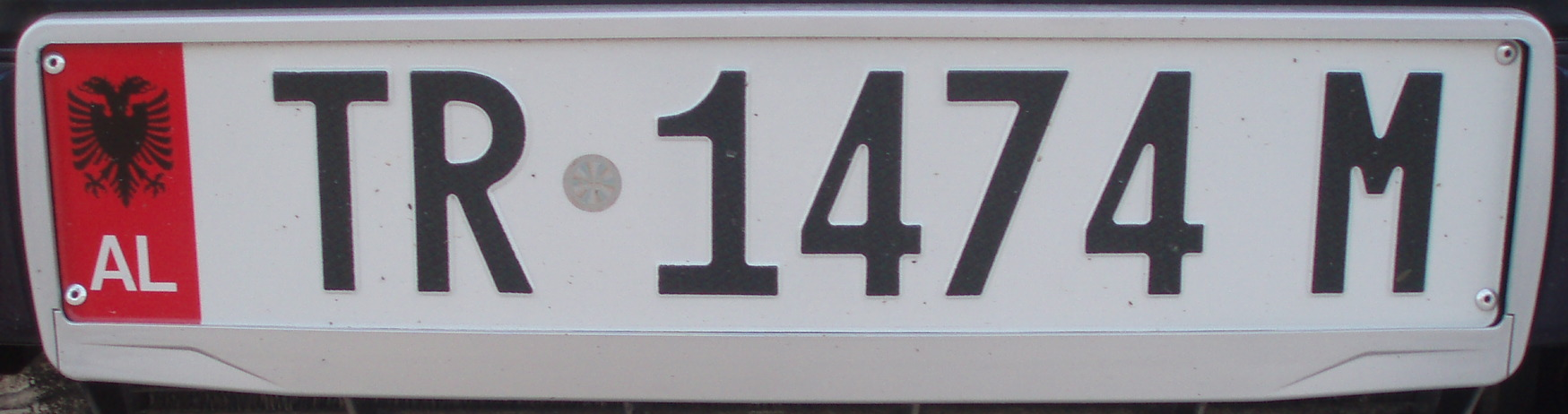 license plate of Tirana, Albania